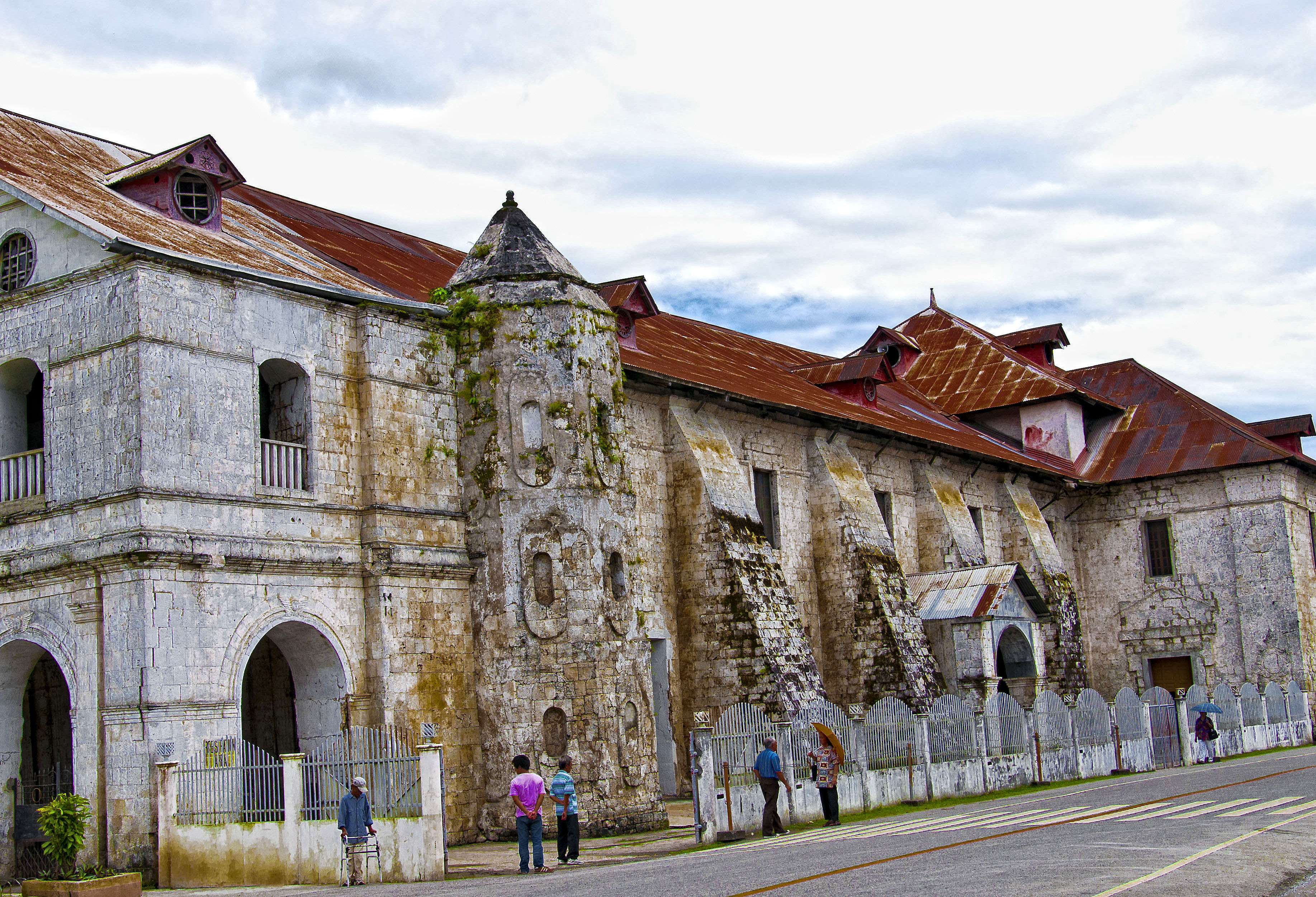 "The Church of San Pedro in Loboc, Bohol is the second oldest church in Bohol. It was originally built in 1602, but soon reduced to ashes. In 1638, a stronger one was build. Located near the river, it has survived a number of floods."